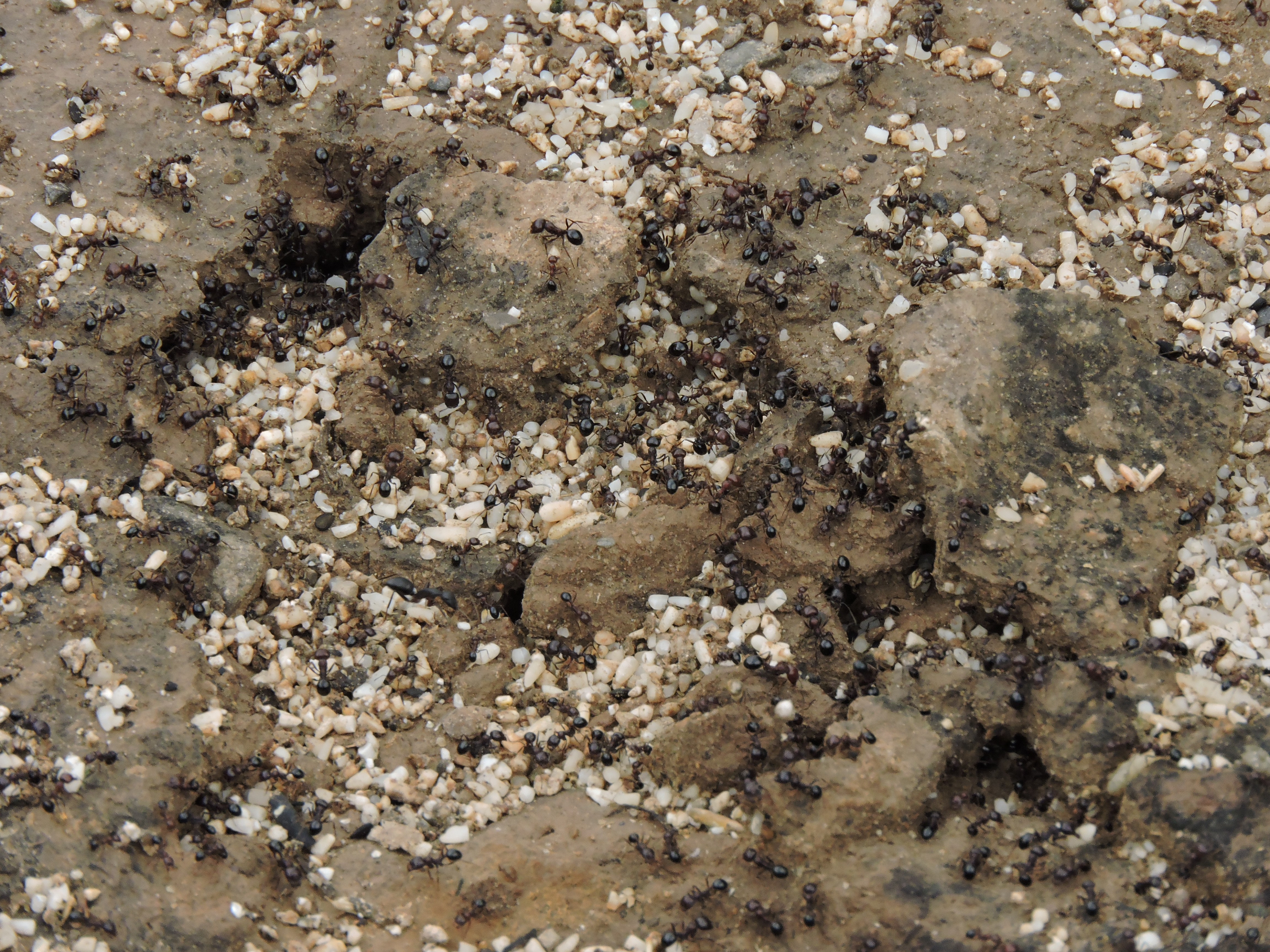 Ant Colony, Chandigarh (UT),India